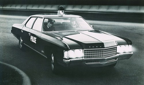 1971 Chevrolet Bel Air Police car